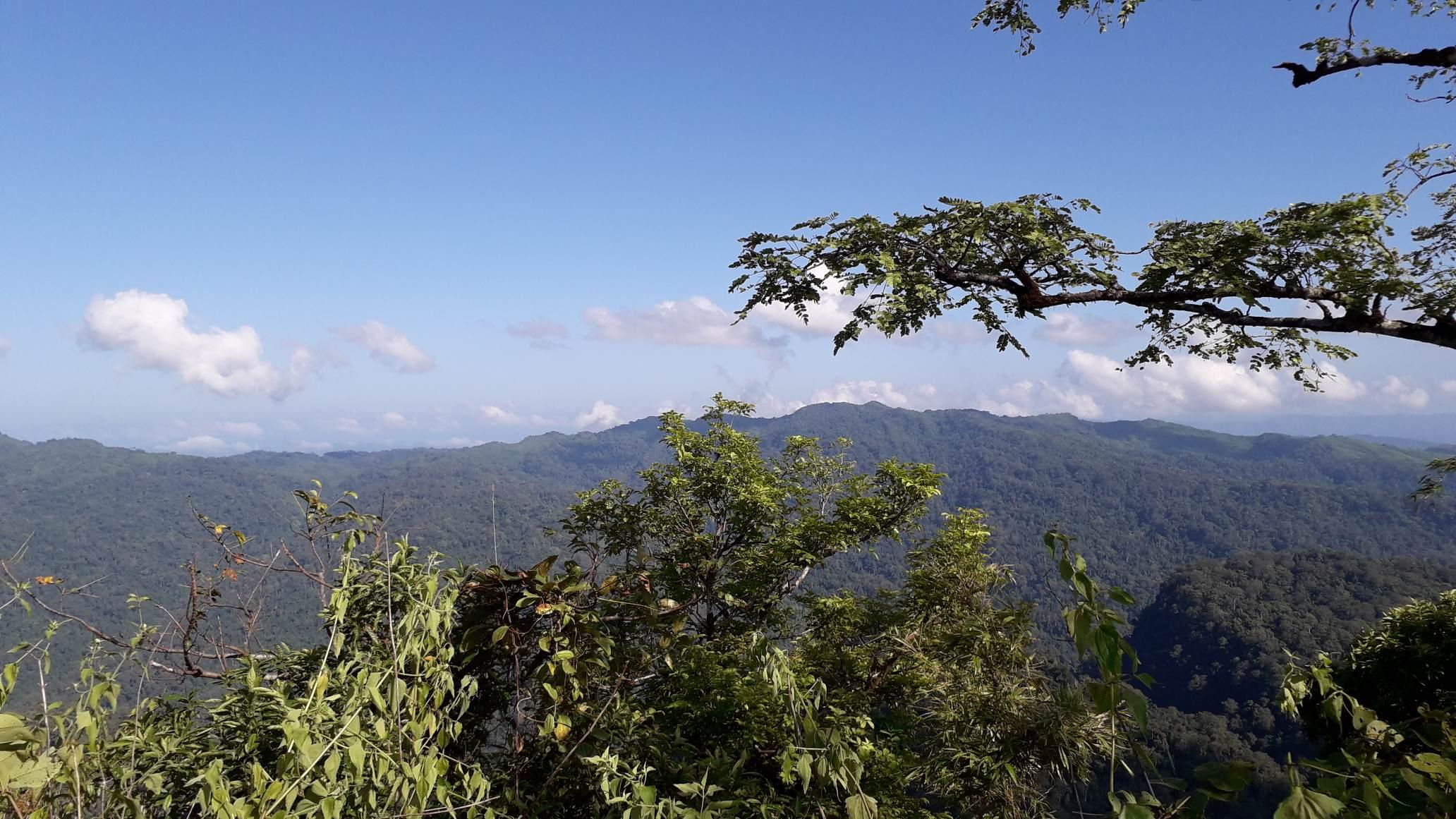 The one highest hill of Bangladesh, above 3000 feet has been discovered recently at Thanchi upozila under Bandarban district, claimed Engineer Mr.Jyotirmoy Dhar. The hill, locally known as “Aiyang Tlang” was measured 3298 feet high above sea level with a Global positioning system (GPS) device, said Engineer Mr.Jyotirmoy Dhar. Earlier 30 years back Mr. Van Rausang Bawm, now 72 years old man from local “Bawm ethnic community” of “Dalian headman para” of “Remakri” mouja, found this hill as a member of Bawm ethnic community. On November 11th 2019, Engineer Jyotirmoy Dhar went to Dalian Headman para of Thanchi upojila and collected proper information about this undiscovered hill and its pick. With the help of local “Bawm” indigenous people, Engineer Jyotirmoy Dhar started his adventure and operation and 13th of November he made the summit in the top peak of this newly discovered hill “Aiyang Tlang”. The hills longitude is 21°40′23.78″N and latitude is 92°36′16.01″E. The location of this newly discovered hill in the middle of Zow Tlang (The unofficially 2nd highest peak of Bangladesh) and Jogi Haphong (another peak above 3000 feet). This newly discovered hill “Aiyang Tlang”, 300 meter inside from Bangladesh –Myanmar border line. The headman (Chairman) of “Dalian headman para” Mr. Lal Ram Bawm” recognized this summit and issued a letter to Engineer Mr. Jyotirmoy Dhar”, as a first Bangladeshi who made first summit to this newly discovered hill and peak “Aiyang Tlang”. This summit and discovery recorded also nearest BGB camp, Engineer Jyotirmoy Dhar said.